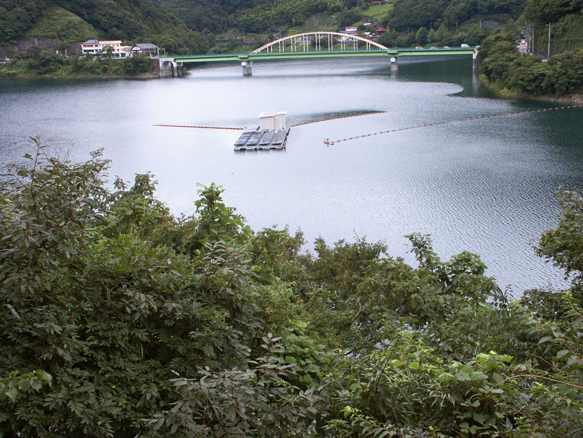 This photograph shows Lake Okutama above the Ogochi Dam in Tokyo, Japan.